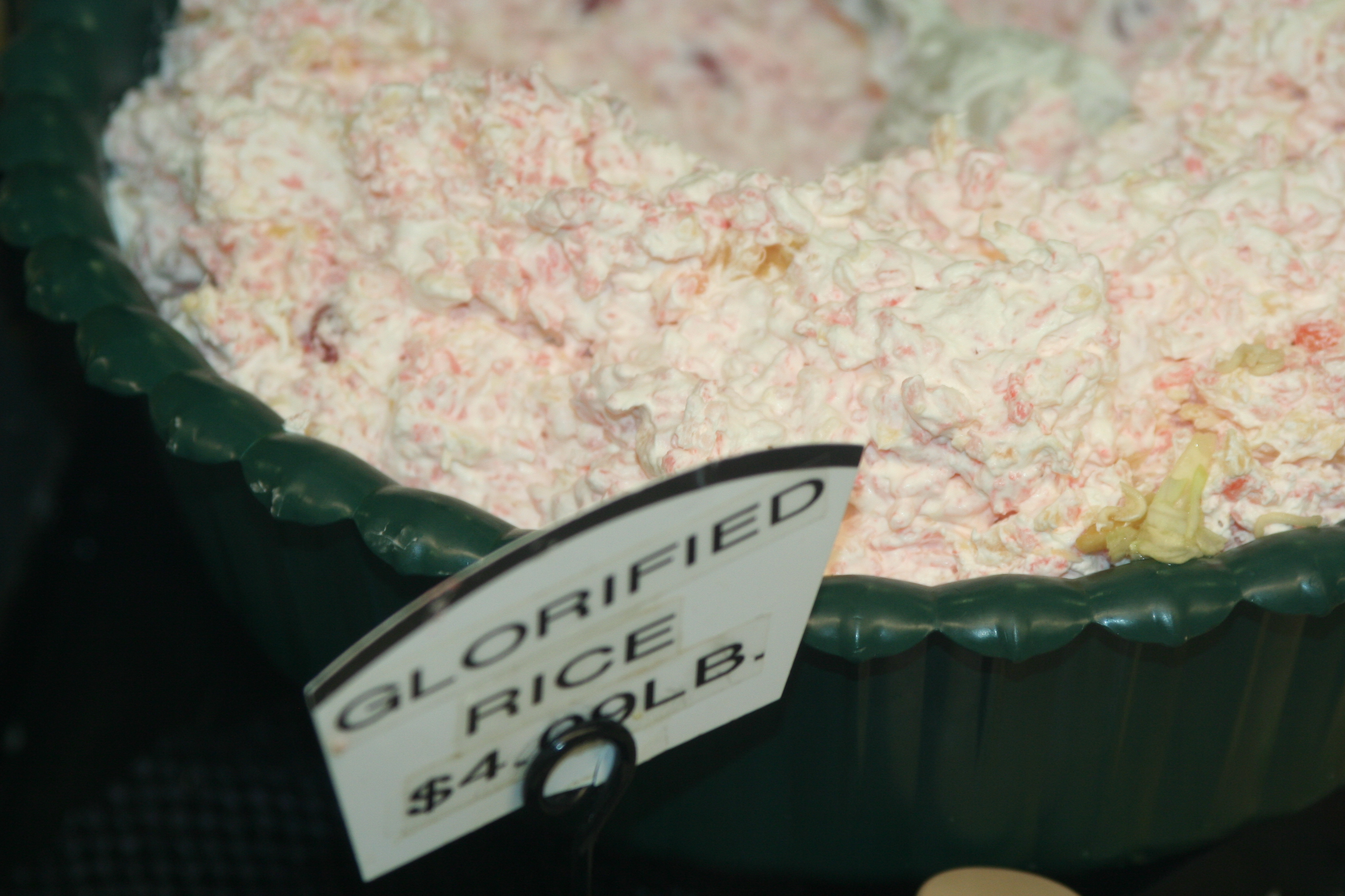 Glorified rice from a supermarket in the land of ice and snow (Minnesota). Recipe includes rice, crushed pineapple, egg, sugar, vinegar, flour and whipped cream with maraschino cherries as a decoration (or as in this case mixed in for color). As a courtesy, please let me know when this photograph is used.